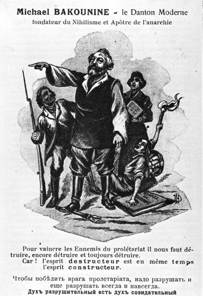 Bakunin on a political poster.